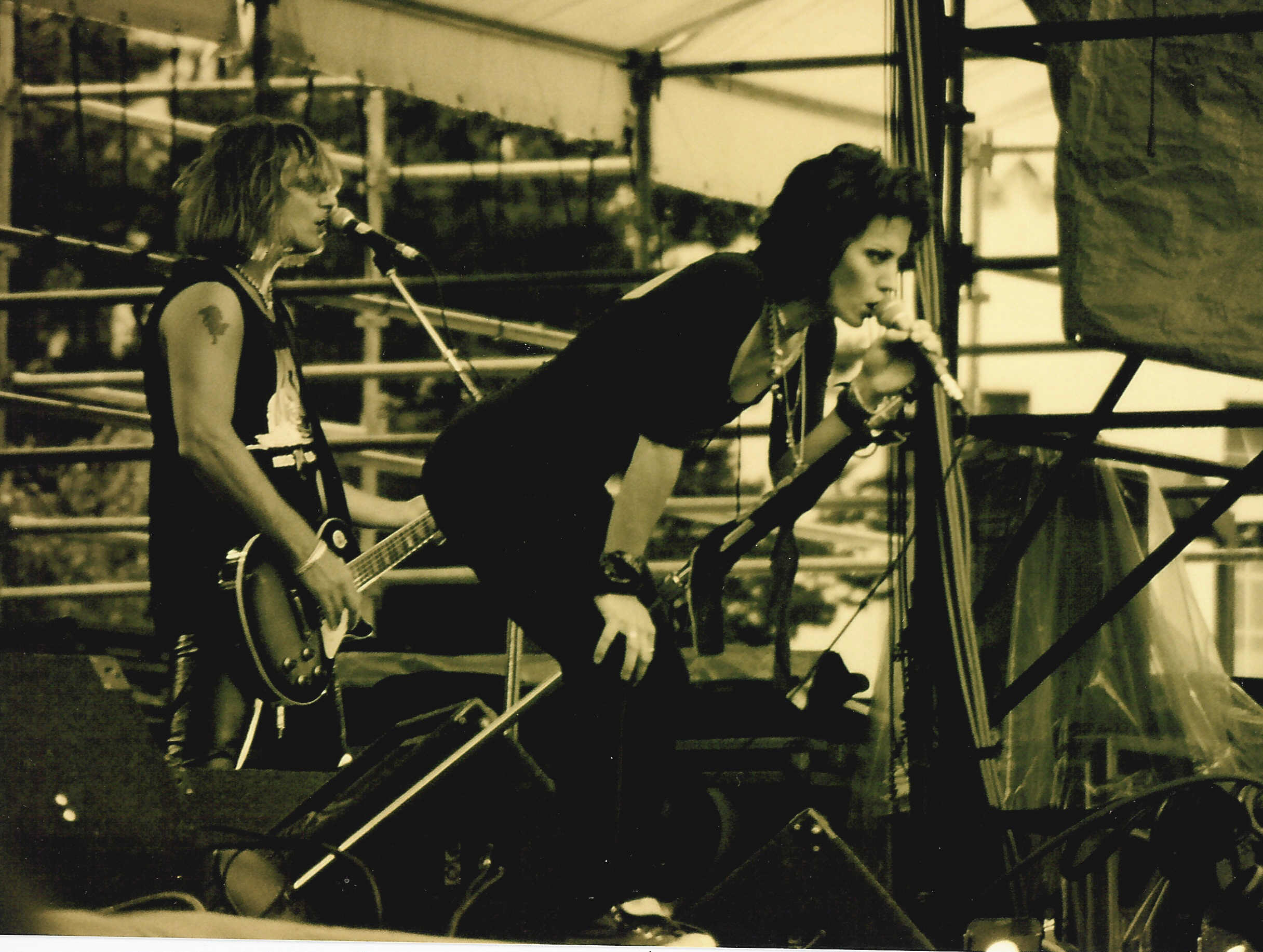 Joan Jett, Bumbershoot festival, Seattle, Washington, 1994.